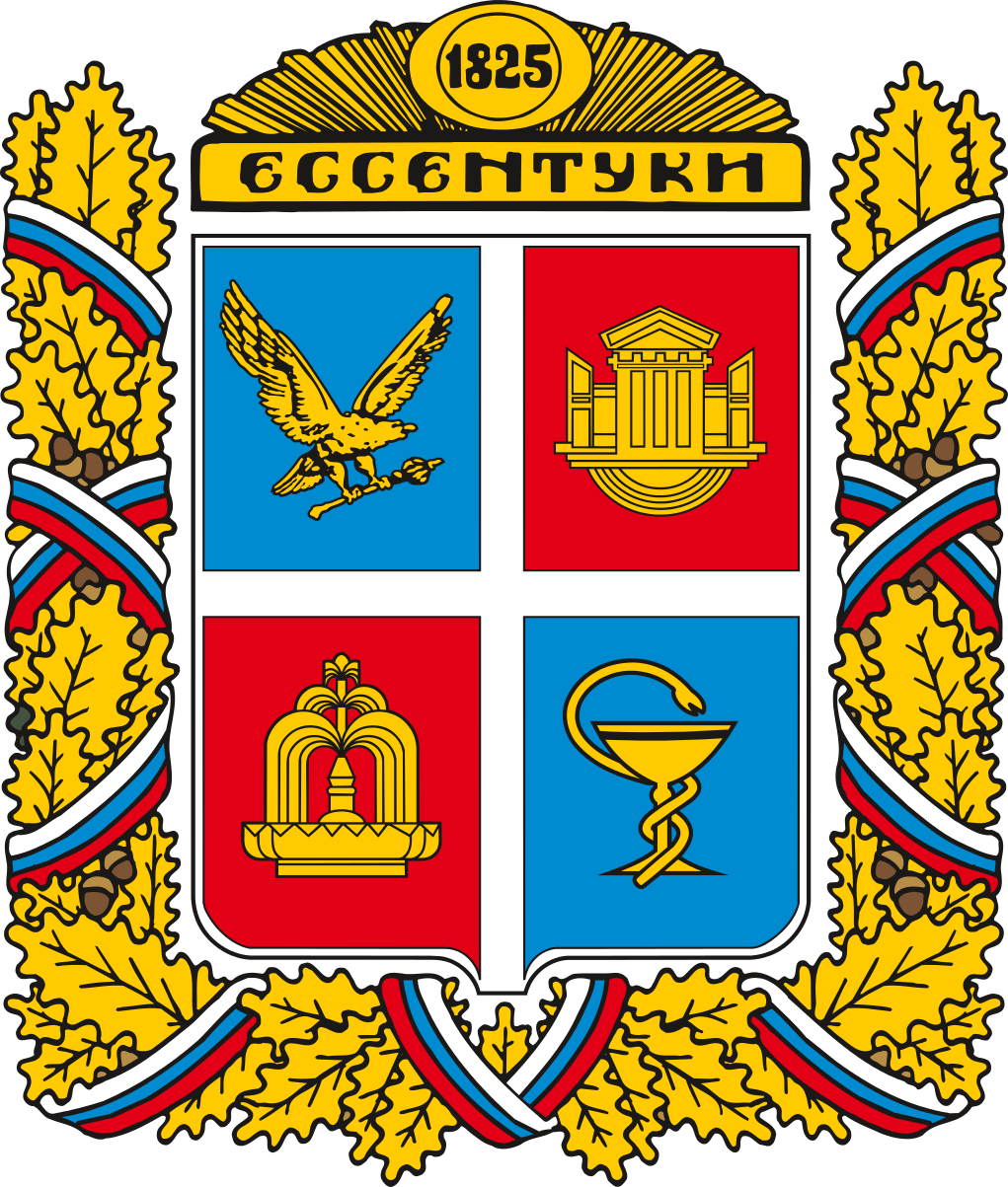 Essentuki (Stavropol krai), coat of arms (1996)